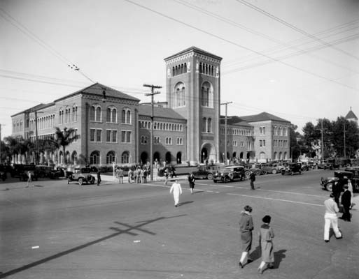 Bovard Hall on the University of Southern California campus, shortly after its construction in 1921. The campus landmark building is now surrounded by pedestrian-only streets and the corner closest to the viewer became the location of the famous Trojan Shrine (a.k.a. "Tommy Trojan" statue).